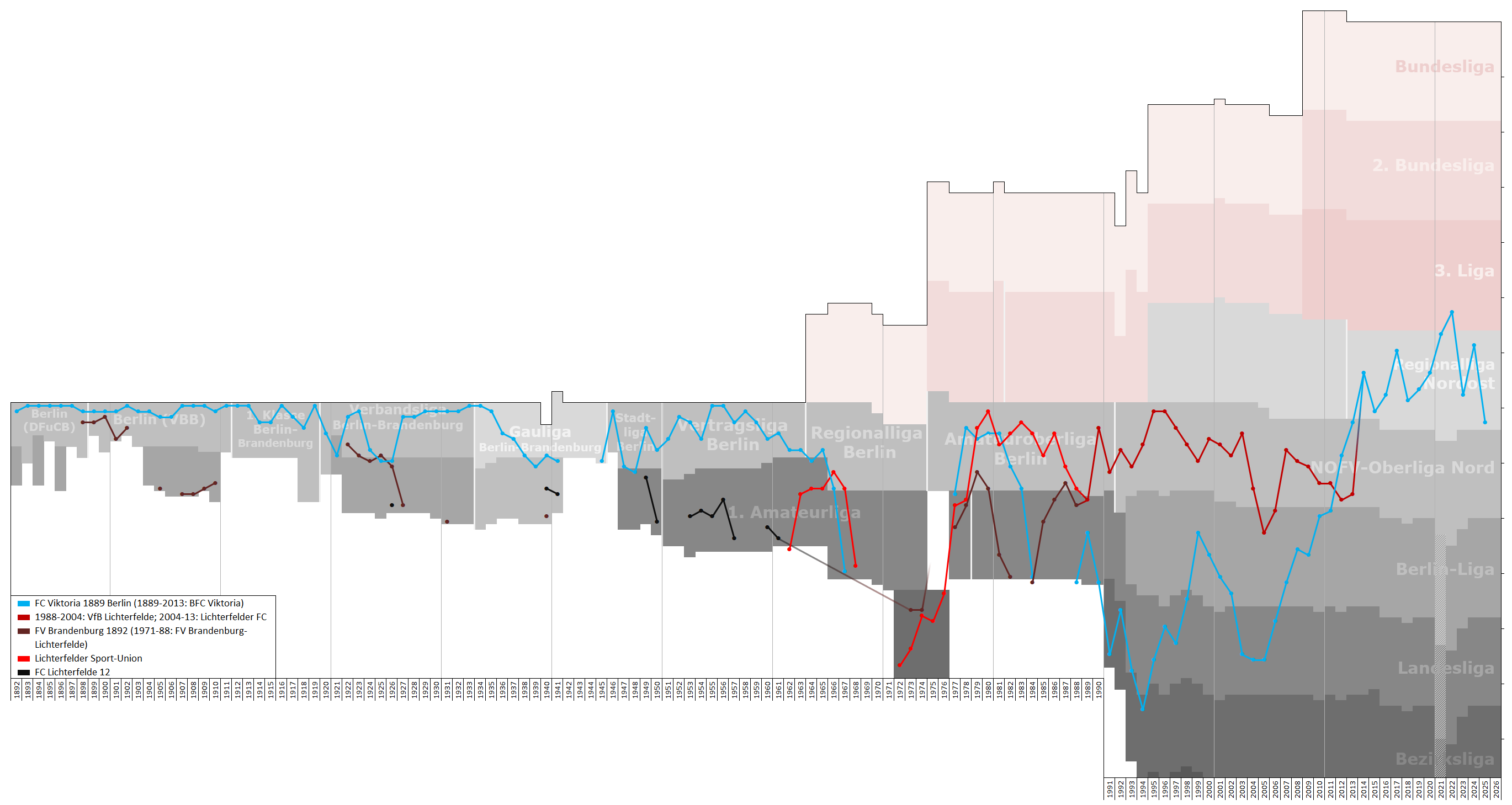 Chart of end-season table positions of Viktoria Berlin in the football league system of Germany. Data source: RSSSF, wikipedia, f-archiv.de, fussball.de